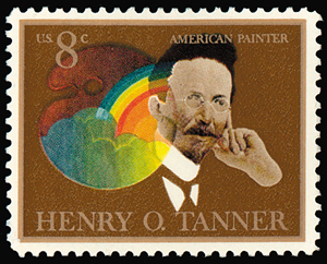 1973[1] US postage stamp honoring Henry Ossawa Tanner